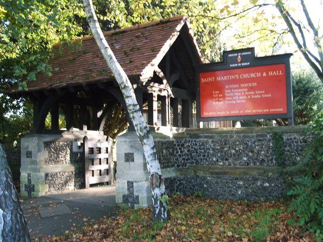 Entrance gate to St Martins This is side entrance to Grave yard at rear of church.